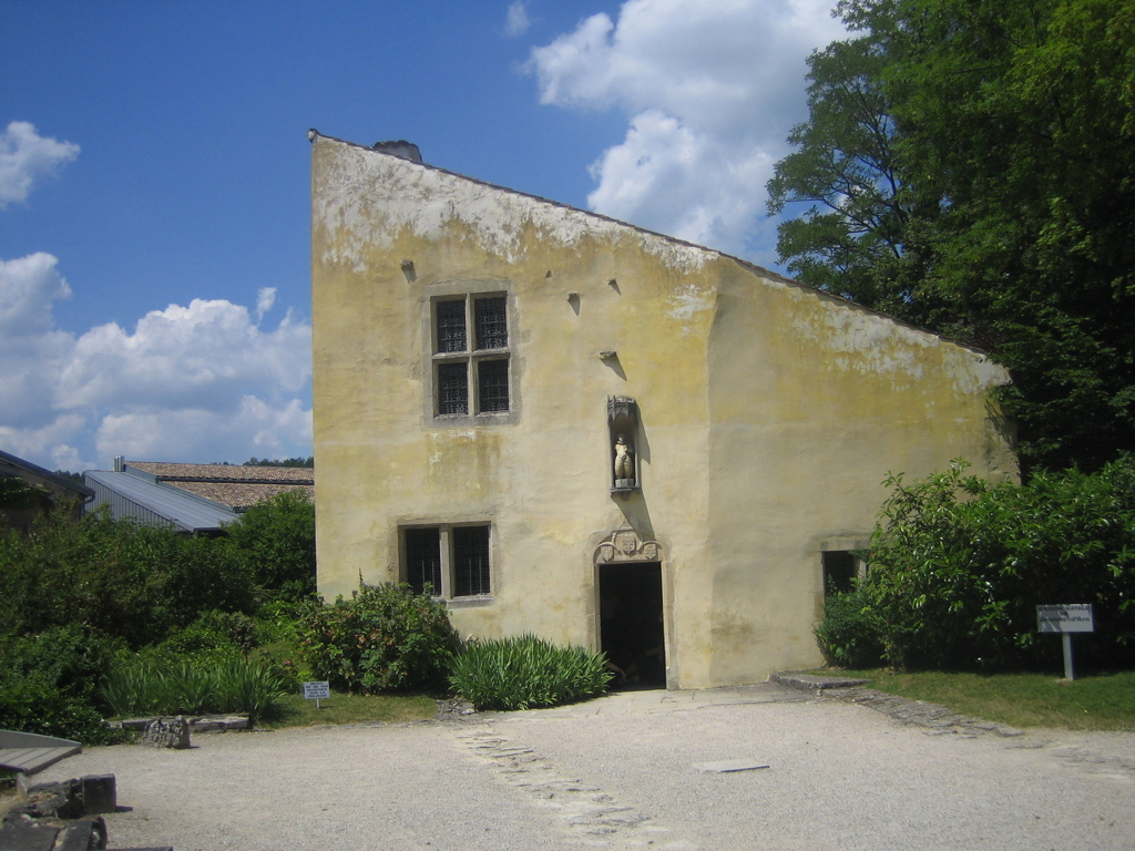 I took the picture myself on 2006-06-30 and it is also available in my personal gallery.